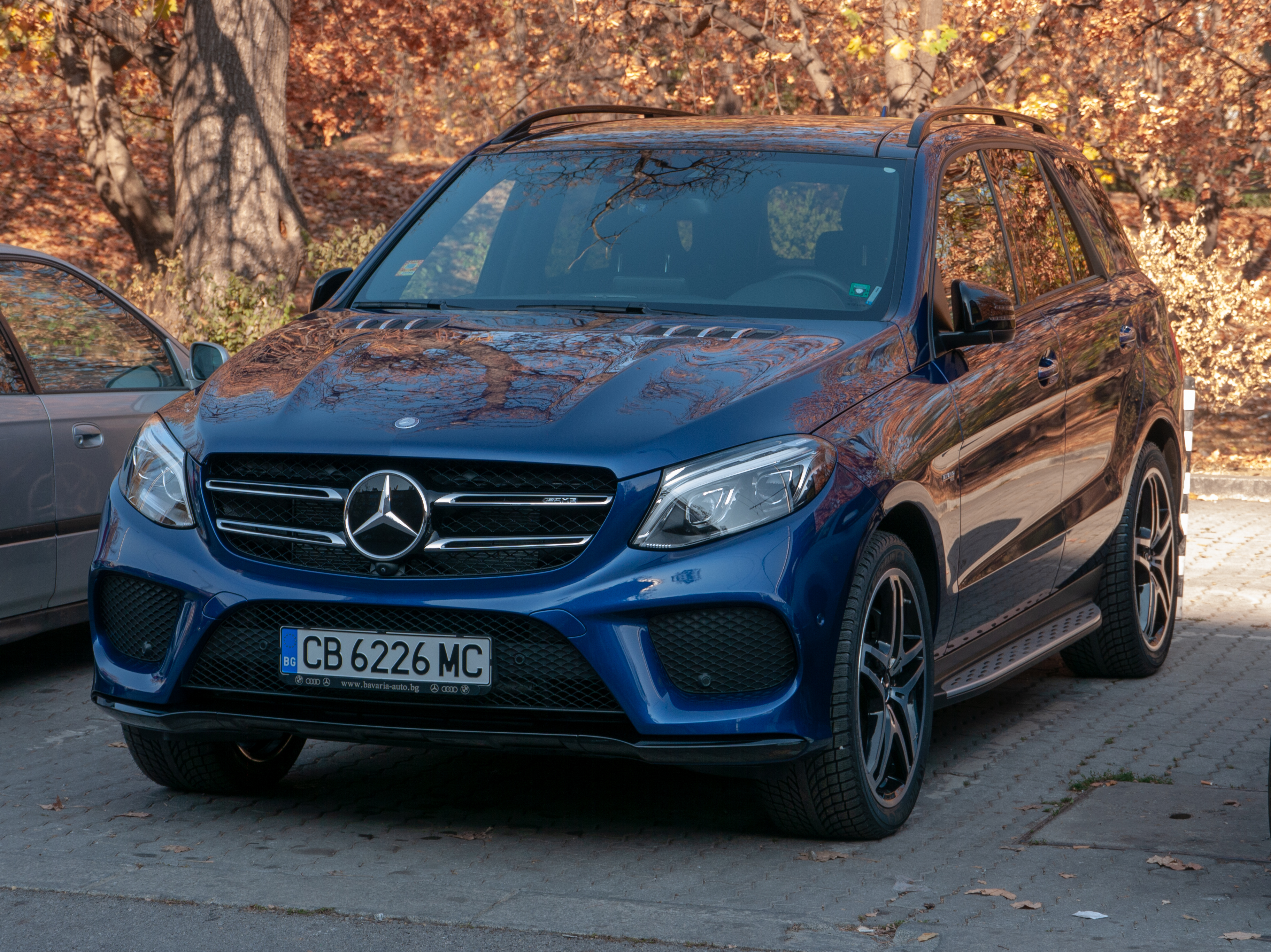 Mercedes-AMG GLE 43, Sofia, Bulgaria